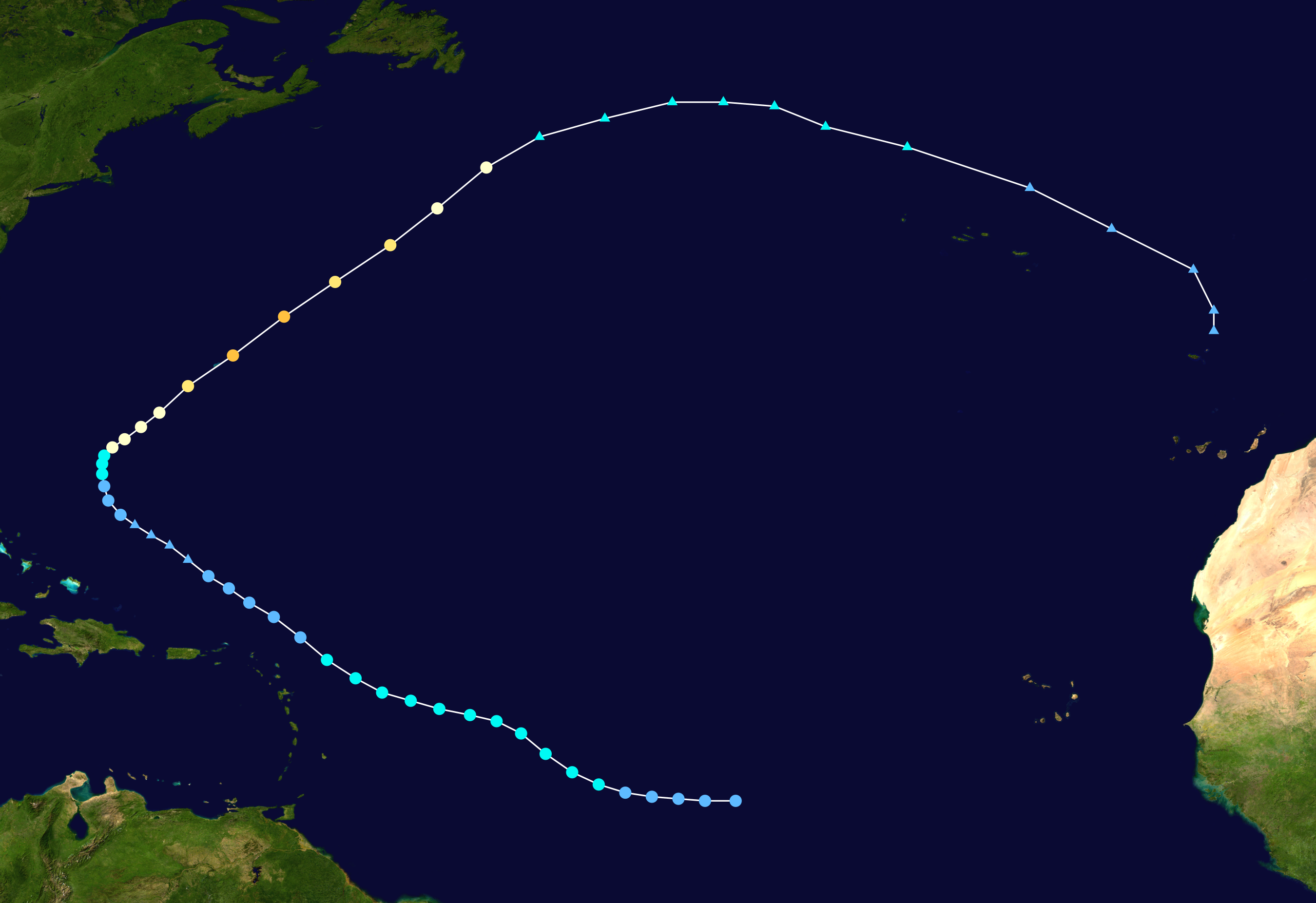 Track map of Hurricane Arlene of the 1963 Atlantic hurricane season. The points show the location of the storm at 6-hour intervals. The colour represents the storm's maximum sustained wind speeds as classified in the Saffir–Simpson scale (see below), and the shape of the data points represent the nature of the storm, according to the legend below. Saffir–Simpson scale Tropical depression≤38 mph≤62 km/h Category 3111–129 mph178–208 km/h Tropical storm39–73 mph63–118 km/h Category 4130–156 mph209–251 km/h Category 174–95 mph119–153 km/h Category 5≥157 mph≥252 km/h Category 296–110 mph154–177 km/h Unknown Storm type Tropical cyclone Subtropical cyclone Extratropical cyclone / Remnant low / Tropical disturbance / Monsoon depression